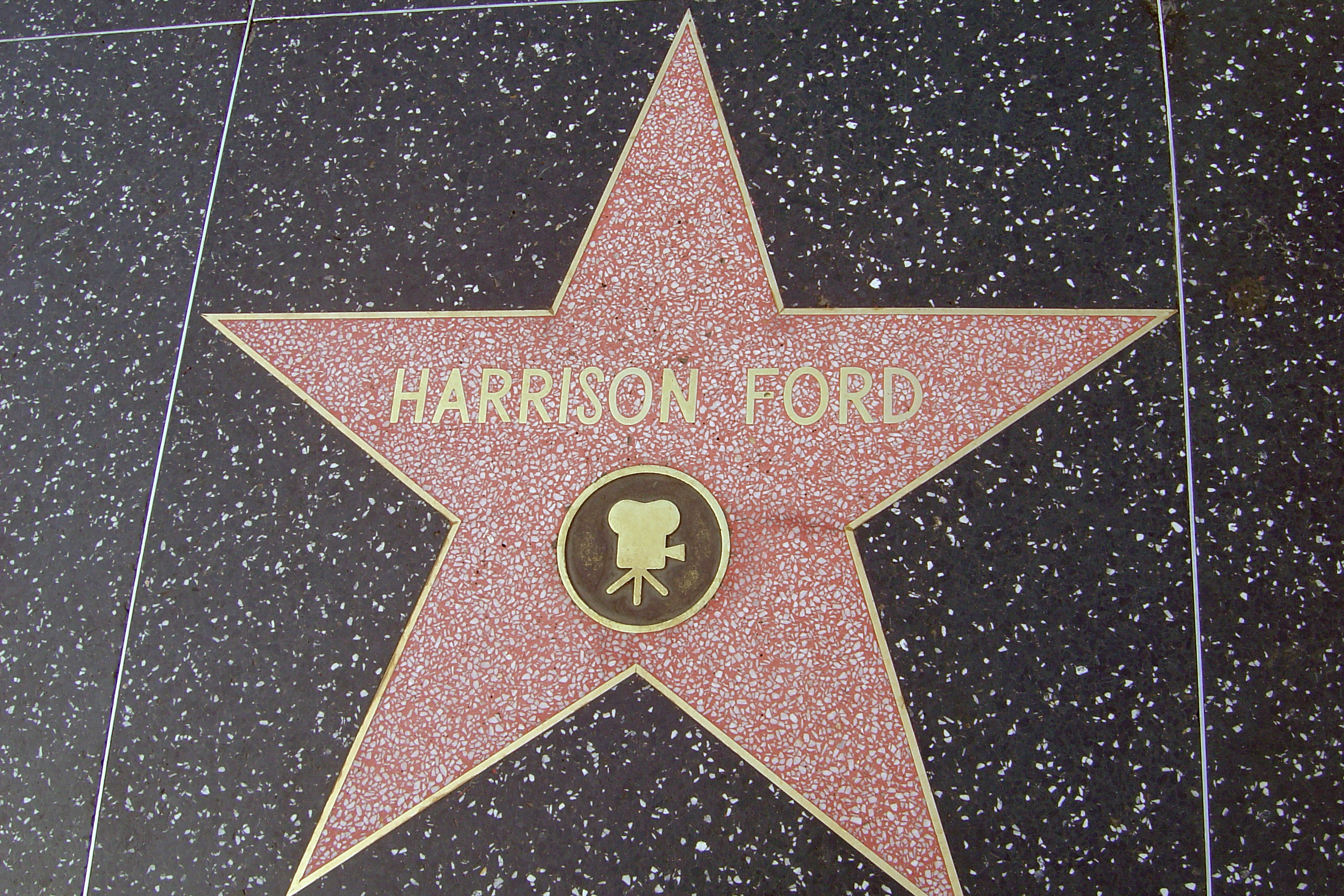 Harrison Ford's Star on Hollywood Blvd